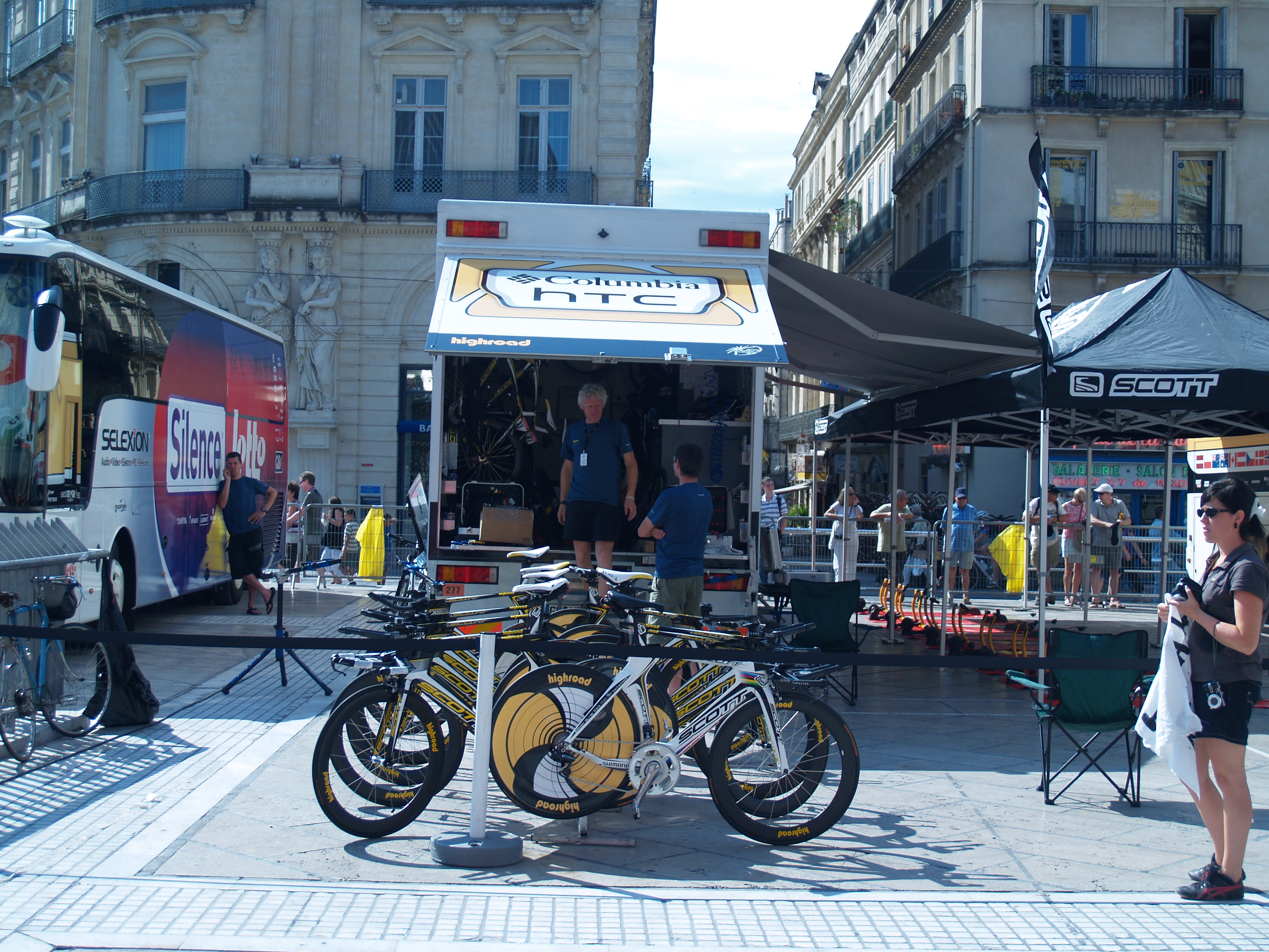 Bus of Columbia HTC team.